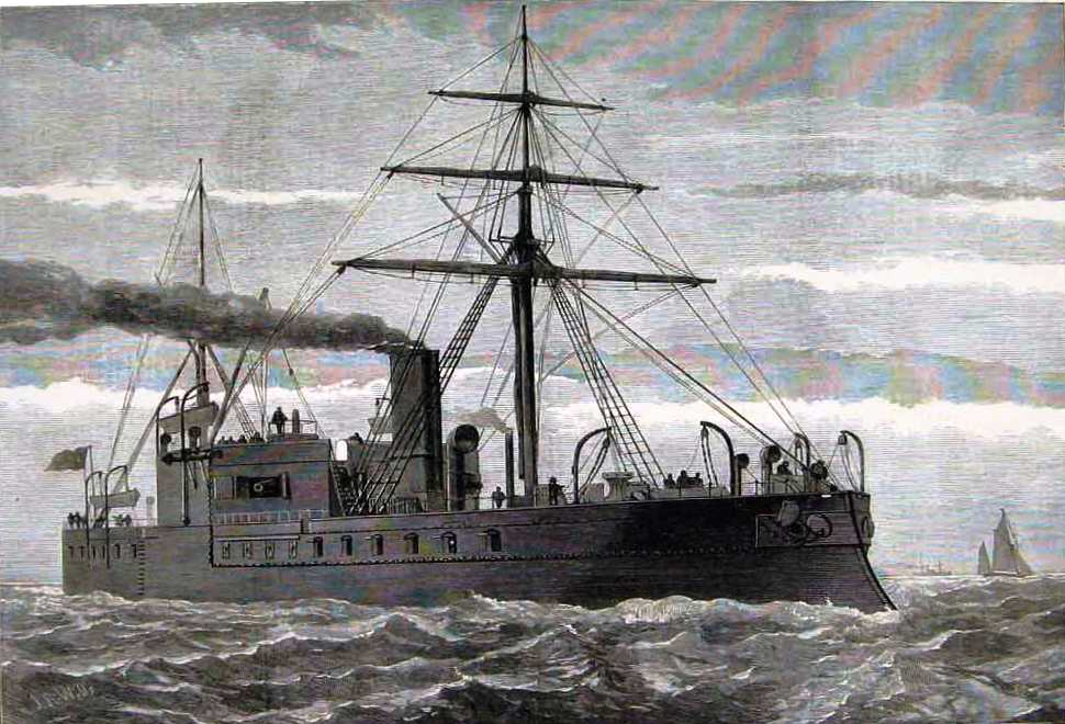 The armoured ship Peyk-i Şeref was built in Britain for the Ottoman Navy. In 1878 it was taken over by the Royal Navy and became HMS Belleisle.